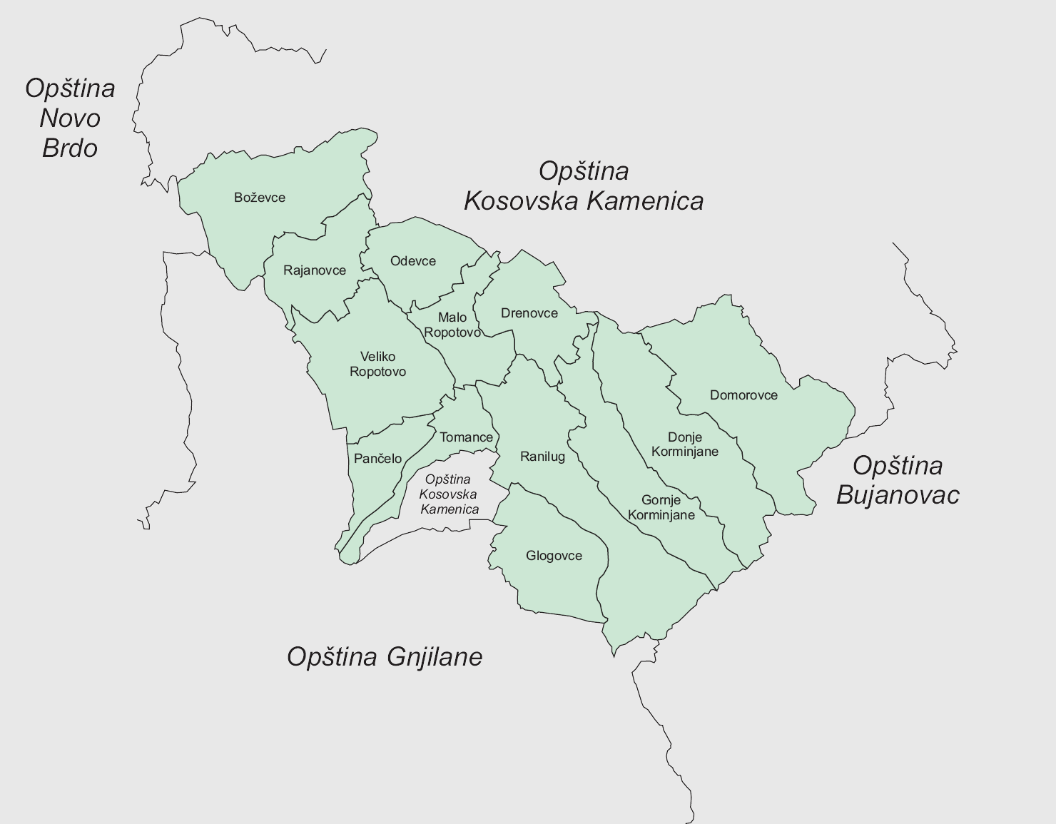 author: Varjačić Vladimir; source: Zakon o administrativnim granicama opština, Skupština Kosova, 20 February 2008